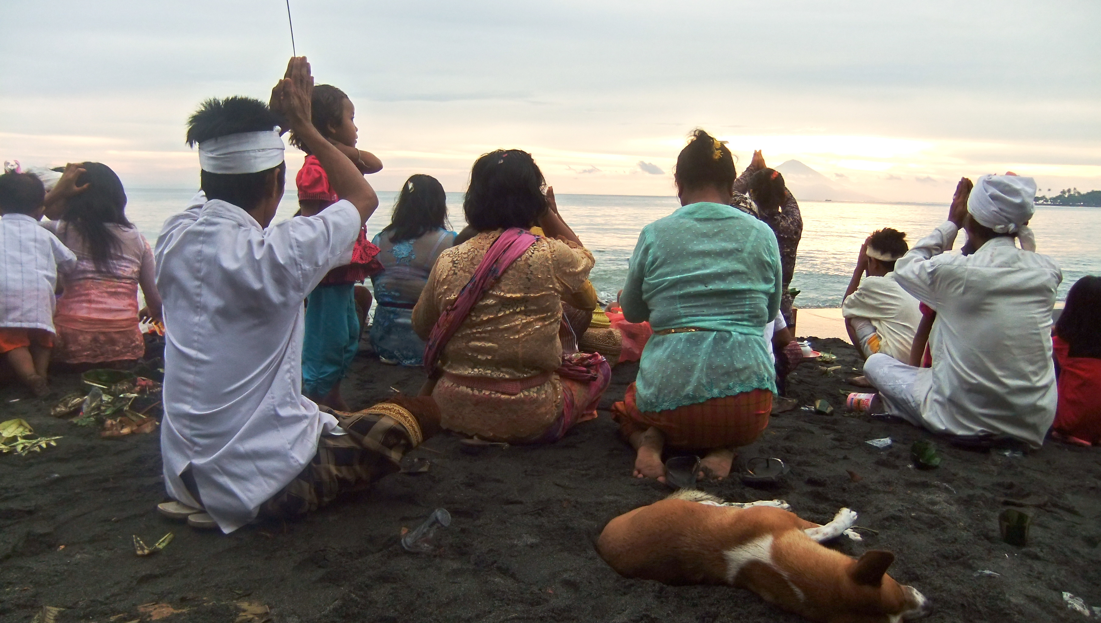 Praying to Mt. Agung, Bali. Pura Batubolong, Senggigi, Lombok, Indonesia